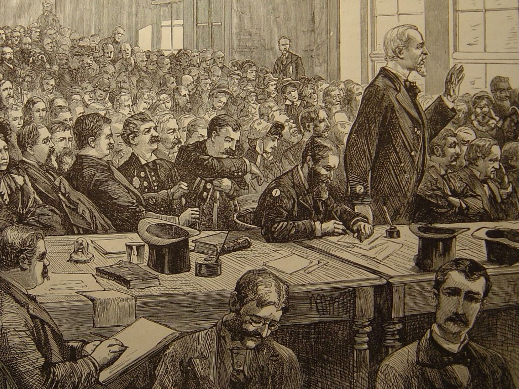 The trial of Guiteau, the assassin of President Garfield, was developed before the court in Washington. His defenders would make him out to crazy but the accused declared himself to be sane.